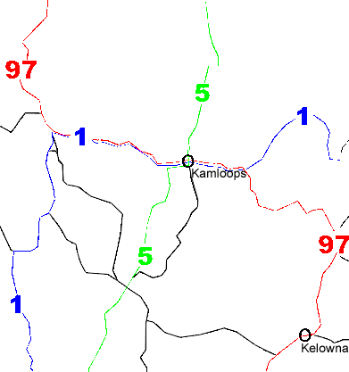 A crudely hand-drawn highway map of a wrong-way multiplex, 97 south is 5 north is 1 east